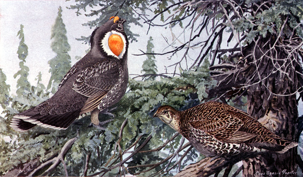 Blue Grouse, Dendragapus obscurus, male and female. Offset reproduction of painting